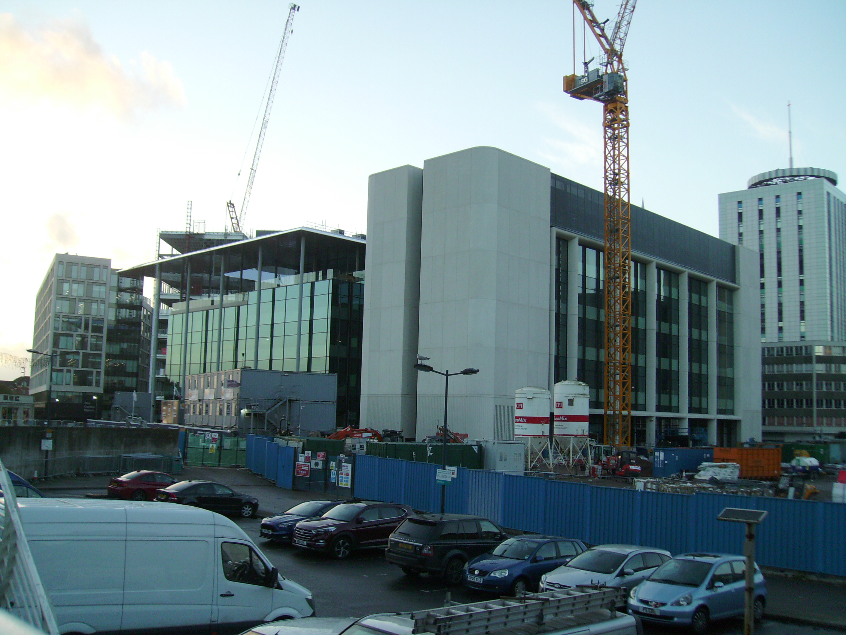 BBC Wales HQ building October 2017, 1 Central Square (left), Cardiff, Wales